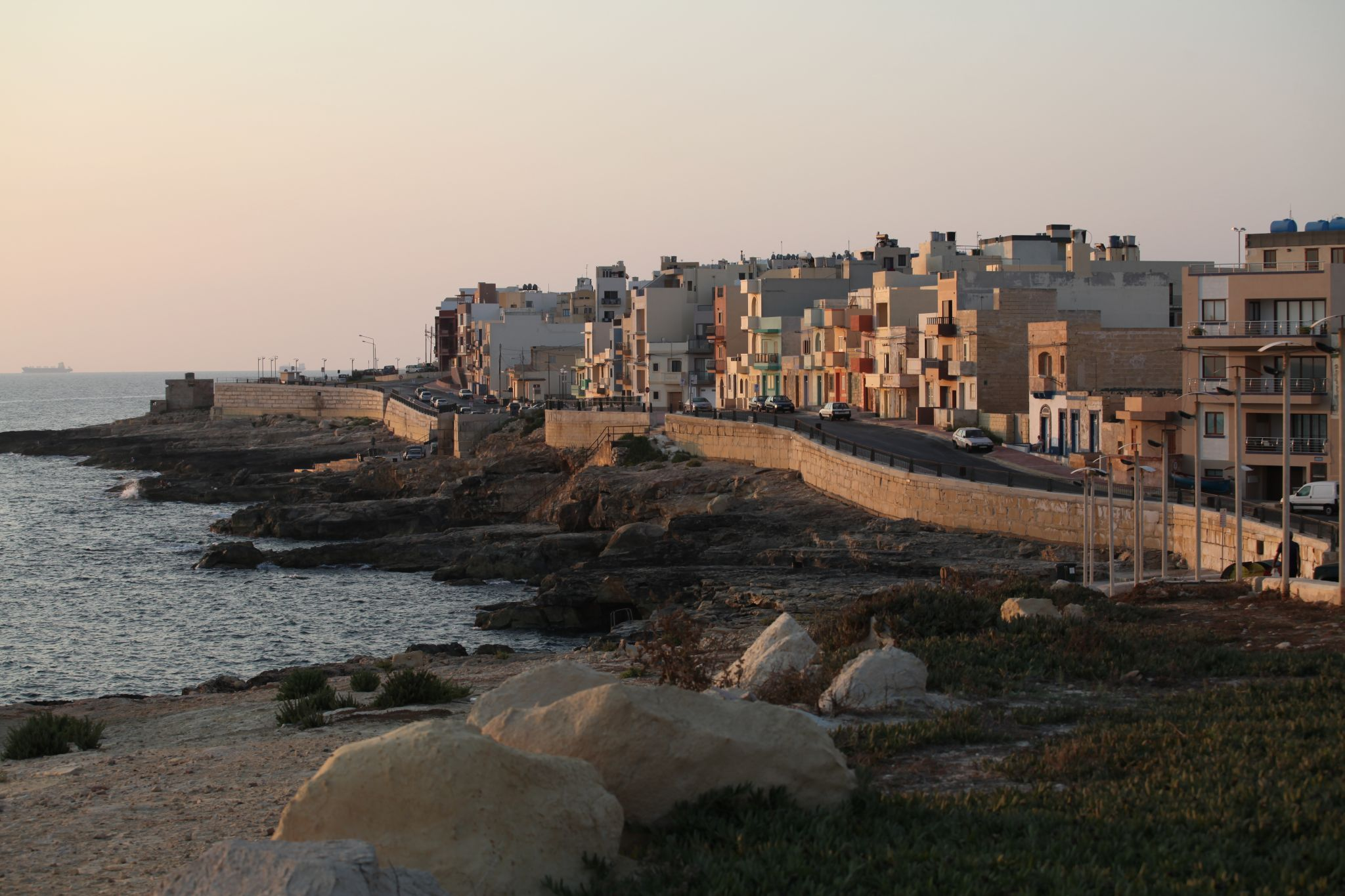 Xgħajra waterfront at sunrise